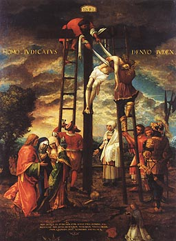 The Deposition